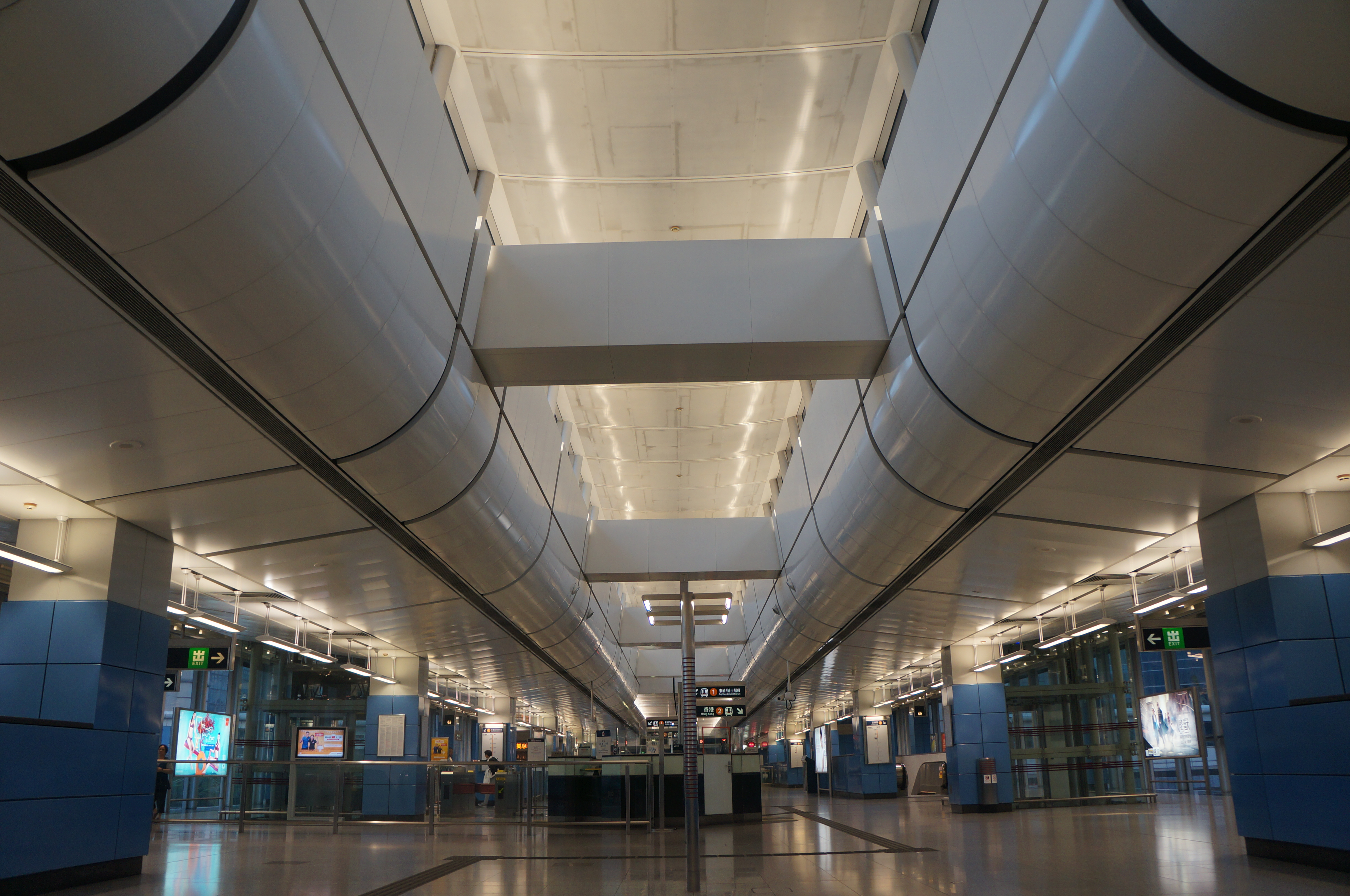 201611 Concourse of Olympic Station, I would never get bored due to extraordinary design of MTR Stations